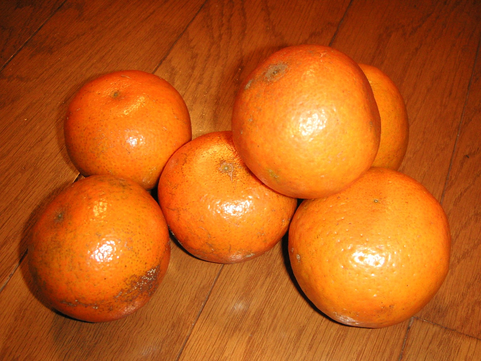 Citrus tankan.